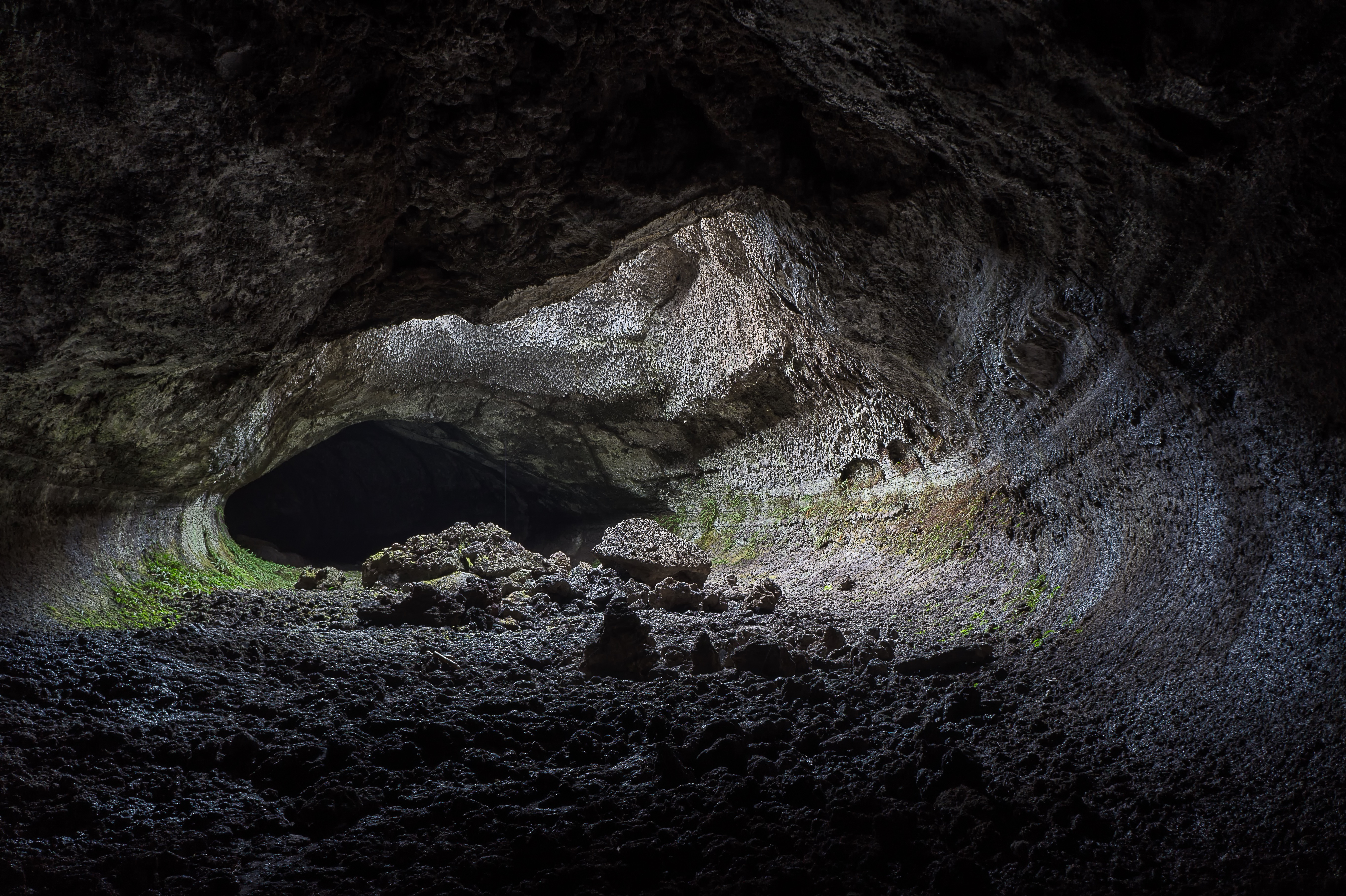 This is one of the longest tunnels scroll Etna. It penetrates into the cave through an opening in the ceiling along a steep slope formed by material collapse. In the south wall of this hillside overlooking a small secondary cavity consists of a short tunnel followed by a 2 m high chimney. Above the main gallery there is also a second long tunnel about 10 m wide and 2 m high at the beginning about 1.5; this gallery is not overlooking the main gallery, but is accessible from the lava field above. The floor is made from lava to the joint surface that sounds empty in step. The main part of the Cave of the Raspberries has two galleries, one downstream of the entrance, about 100 m long, affected by numerous collapses, the second upstream input, 300 m long in the best condition. The floor of the tunnel upstream consists of lava scoriae fragmentary or welded. Somewhere they are piled up large blocks of collapse. A collapse are also due the two openings on the ceiling that light up the gallery. The most downstream is a convenient second entrance. The most upstream is constituted by two holes in the ceiling; in correspondence of them there is a short tunnel located at a higher level, not easy to access. The section of the cave is mostly semi-circular, but in some stretch elliptical with the major axis horizontal. Stalactites to recast abound everywhere, as well as scratches and cords overlapping horizontal walls. There are many fractures on the vault. The main gallery presents the double side of the lower section; by the shortest of them departs a narrow passage that opens outside. Because of the different openings this cavity is very windy. Mungibeddu.it